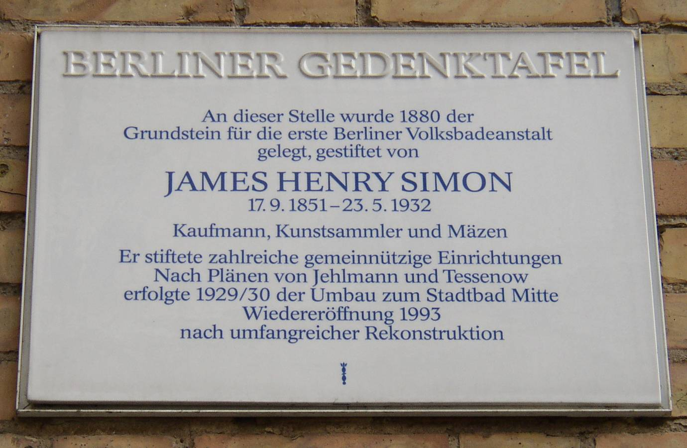 Berlin memorial plaque for James Henry Simon (Gartenstraße 5) in Berlin-Mitte, Germany